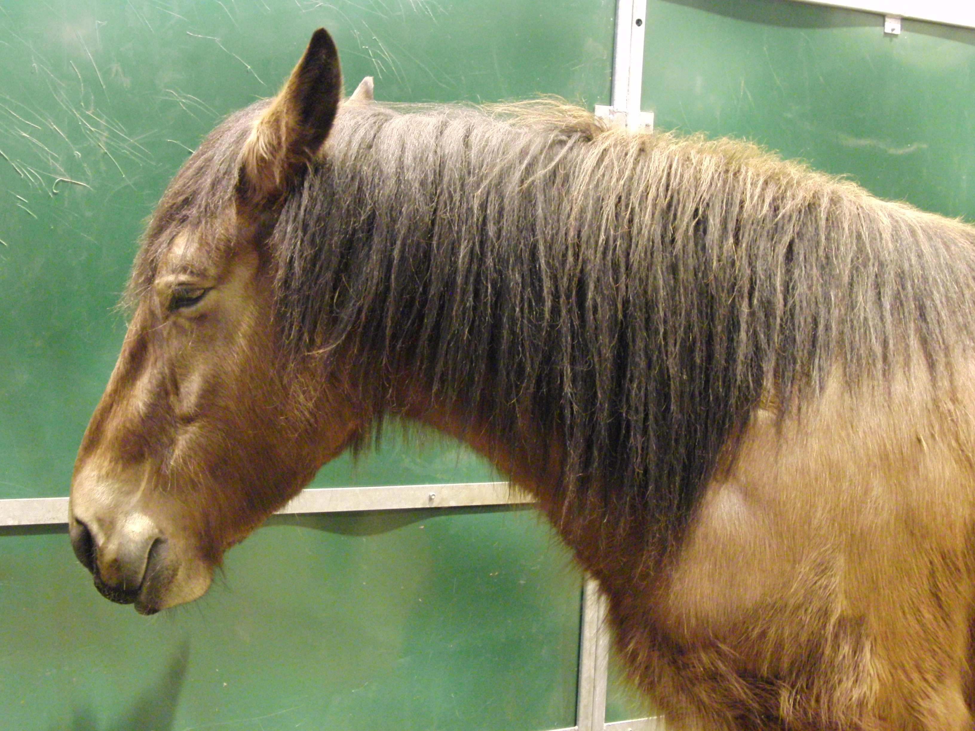 Auvergne horse, Paris International Agricultural Show 2012, Paris, France